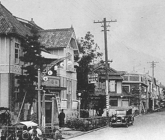 Beppu downtown in Taisho and Pre-war Showa eras